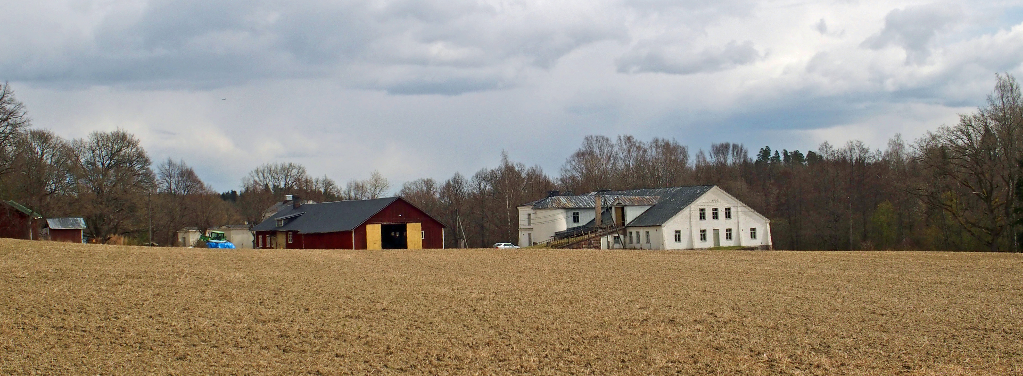 Buildings of Oitmäki manor in Kirkkonummi